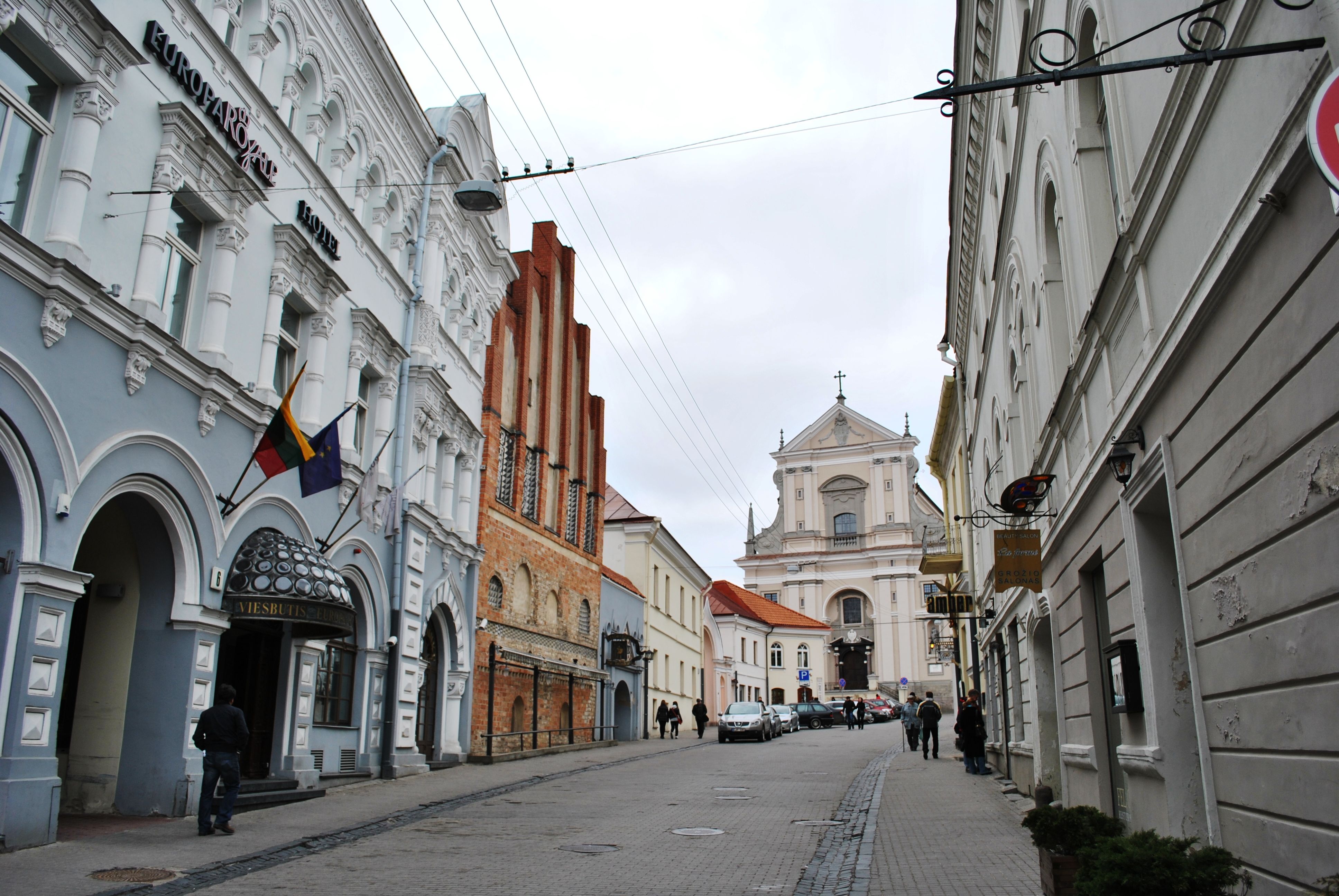 St. Theresa Church in Vilnius.